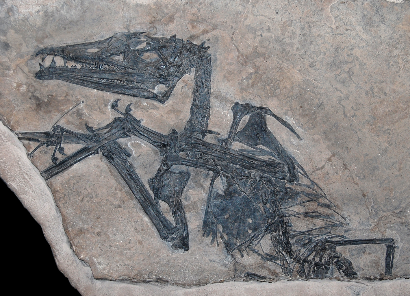 Photograph of Museo civico di scienze naturali di Bergamo (MCSNB) 2888, the holotype specimen of Eudimorphodon ranzii ZAMBELLI 1973, a basal pterosaur from the Norian (middle Upper Triassic) of the Italian Alps.[1] ↑ see fig. 8A in Silvio Renesto (2006): A reappraisal of the diversity and biogeographic significance of the Norian (Late Triassic) reptiles from the Calcare di Zorzino. In: Jerry D. Harris, Spencer G. Lucas, Justin A. Spielmann, Martin G. Lockley, Andrew R.C. Milner, James I. Kirkland (eds.): The Triassic-Jurassic Terrestrial Transition. New Mexico Museum of Natural History and Science Bulletin 37:445–456 (online)